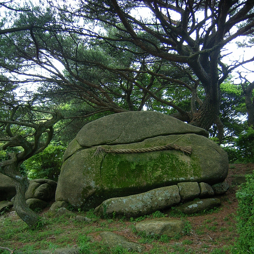 天穂日命の古代祭場（神籬：こもろぎ）。六甲山カンツリーハウスにて。 Himorogi of Amenoho-Hinomikoto; Himurogi is a place where Kami comes for festival. Location: Rokkou Country House, Mt. Rokkou, KOBE, Japan Copyright: OpenCage